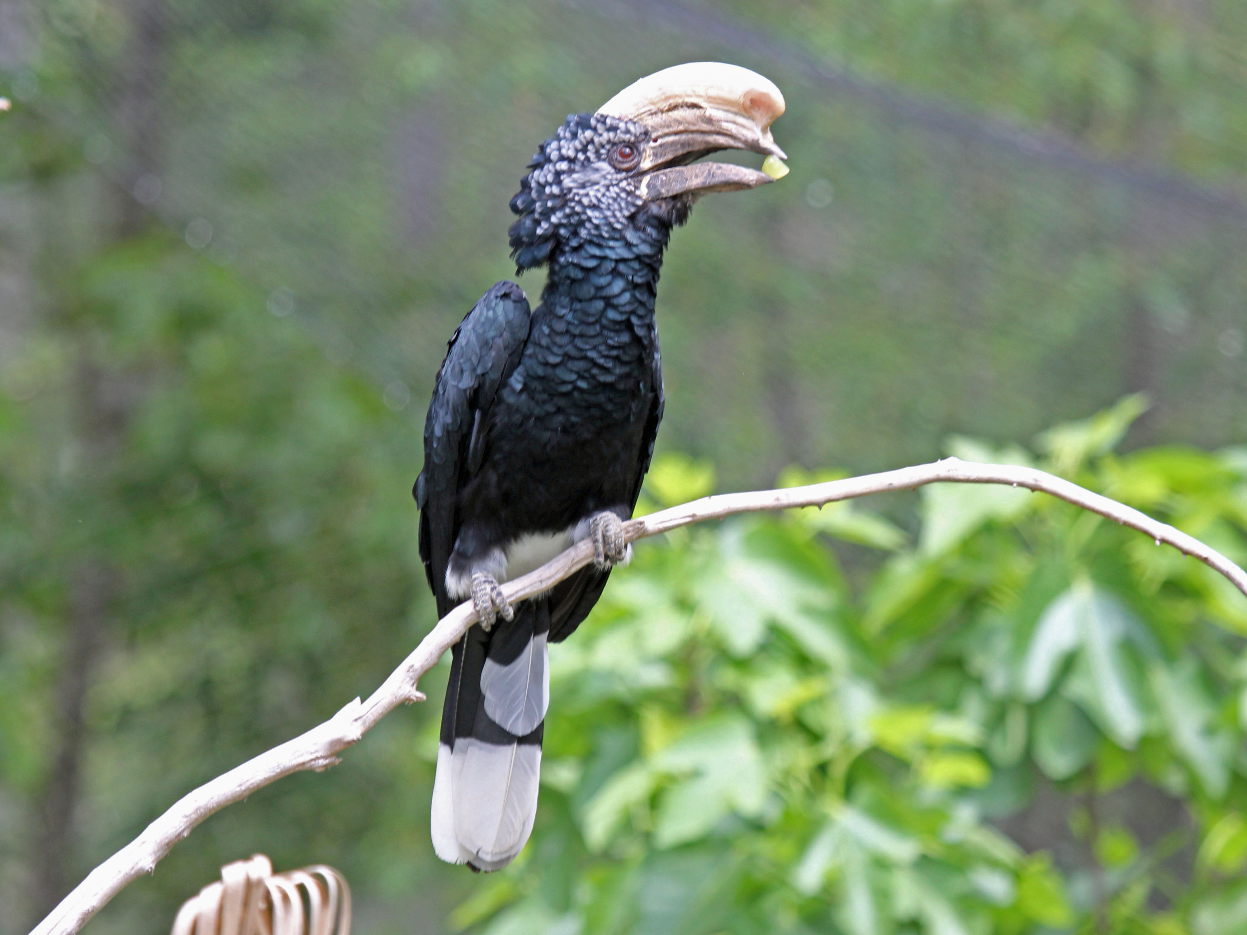 Silvery-cheeked Hornbill (Bycanistes brevis) - Sylvan Heights Waterfowl Park, Scotland Neck, North Carolina